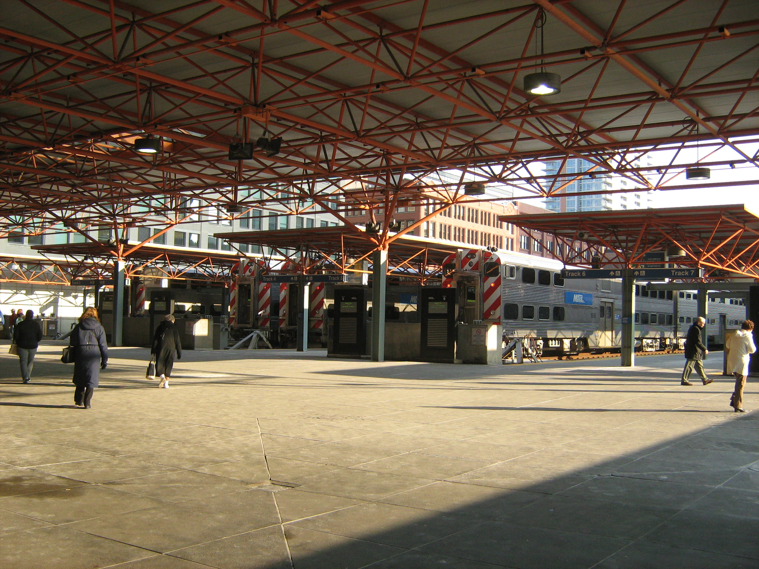 414 S. LaSalle St Chicago, IL 60605 Metra Rock Island District Line Zone A